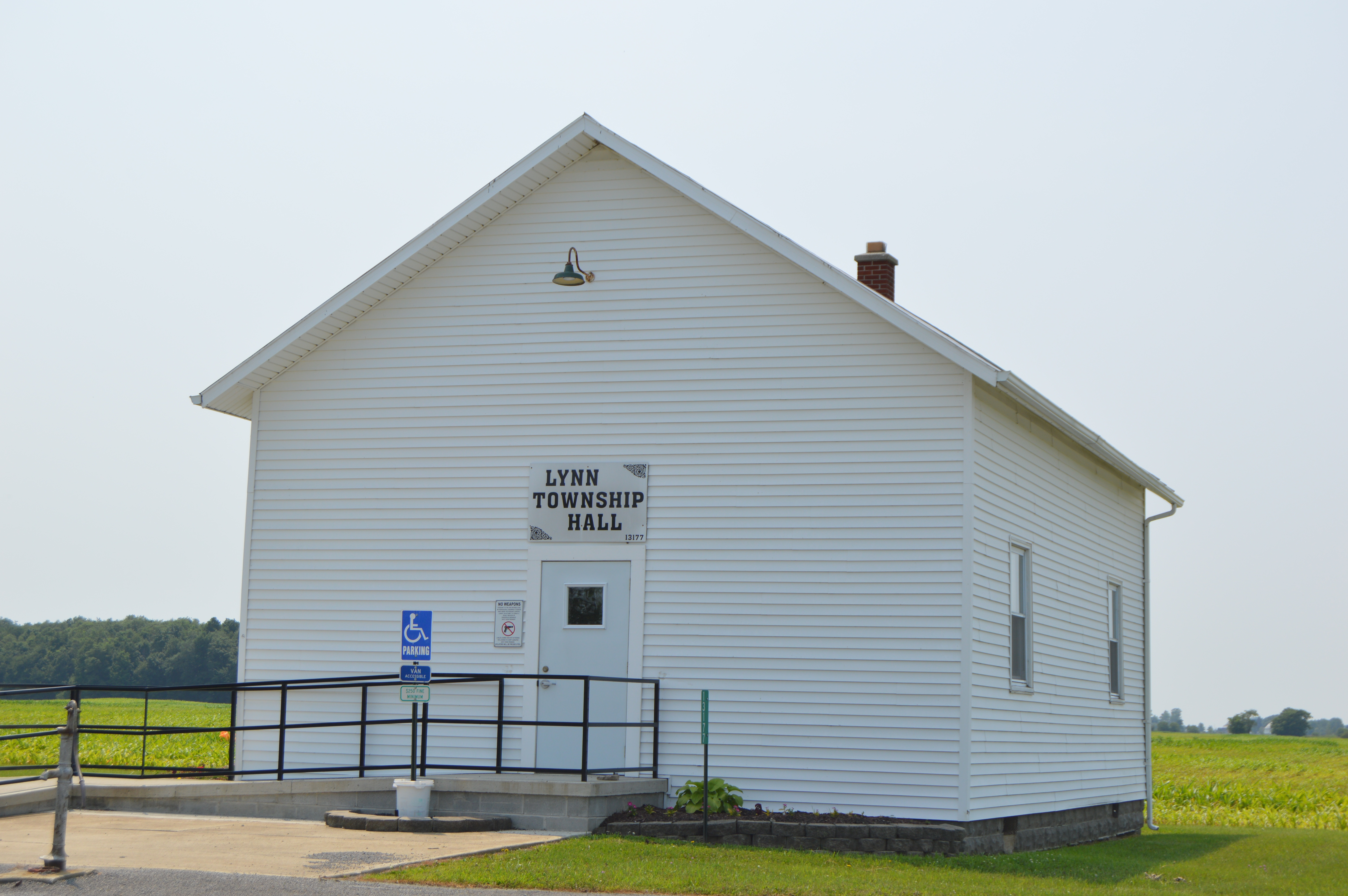 Township hall for Lynn Township, Hardin County, Ohio, United States, located on the southwestern corner of the junction of County Road 150 and Township Road 115 west of Kenton.